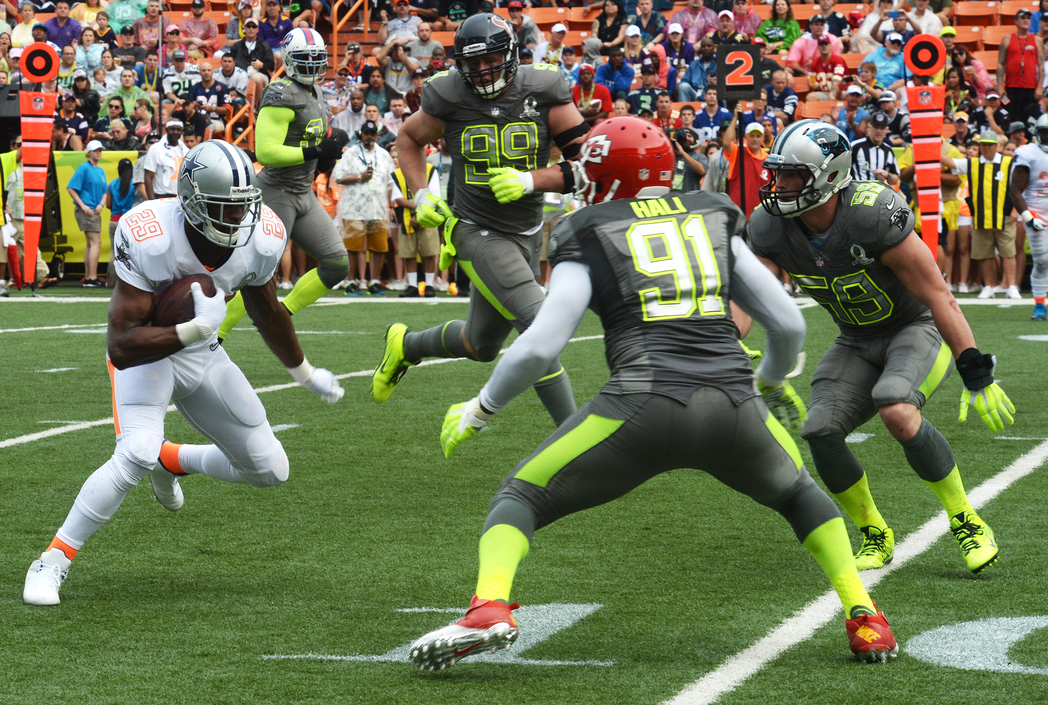 Dallas Cowboys running back DeMarco Murray vs Tampa Hali and Luke Kuechly during 2014 Pro Bowl.